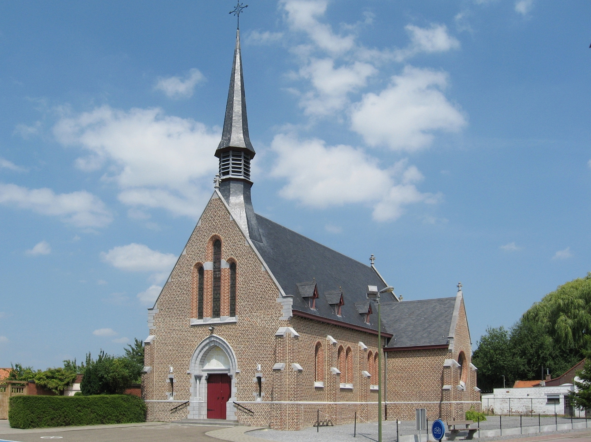 Church of Our Lady in Grazen, Geetbets, Flemish Brabant, Belgium